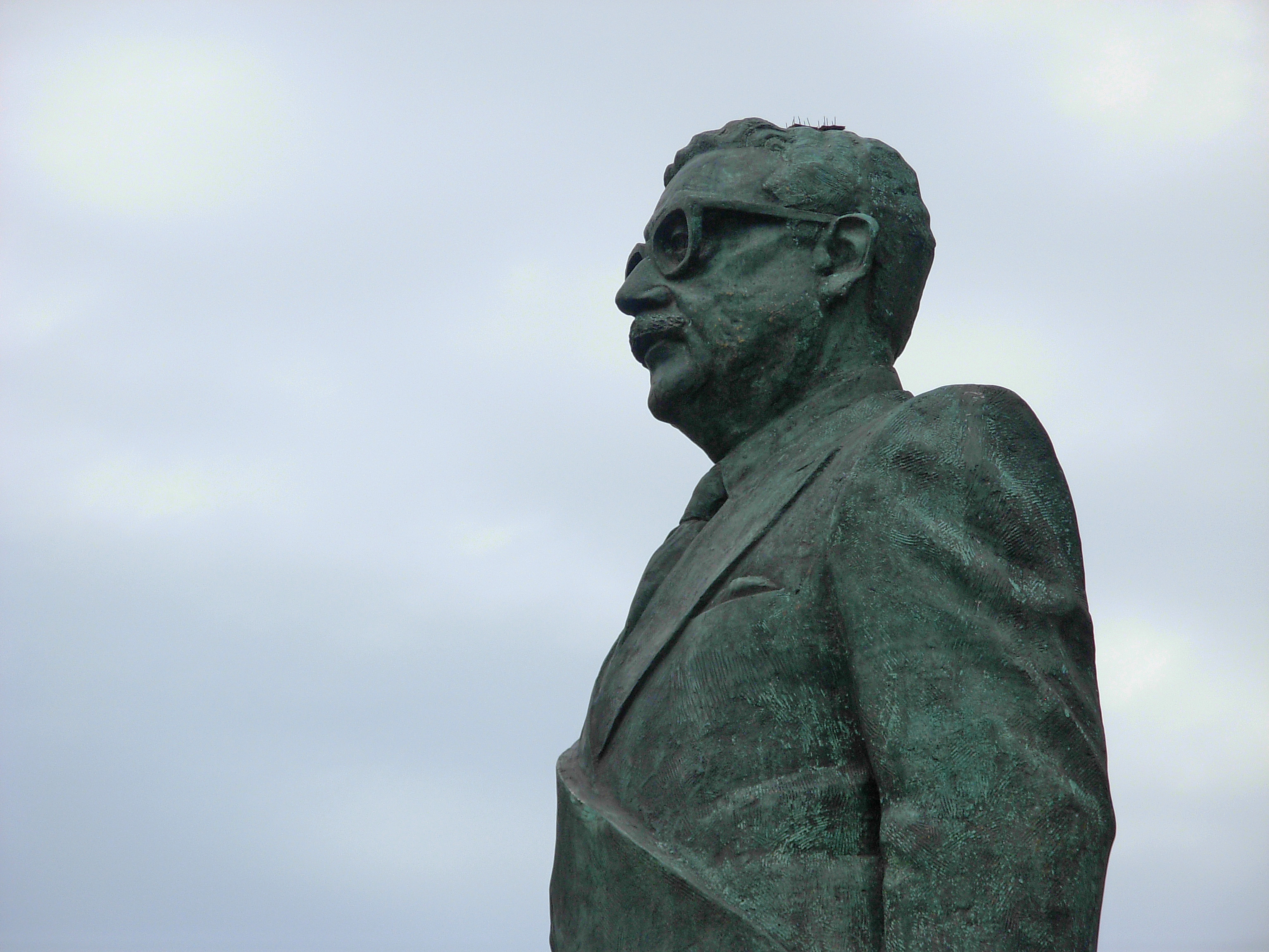 Statue of Salvador Allende in front of the Palacio de la Moneda.